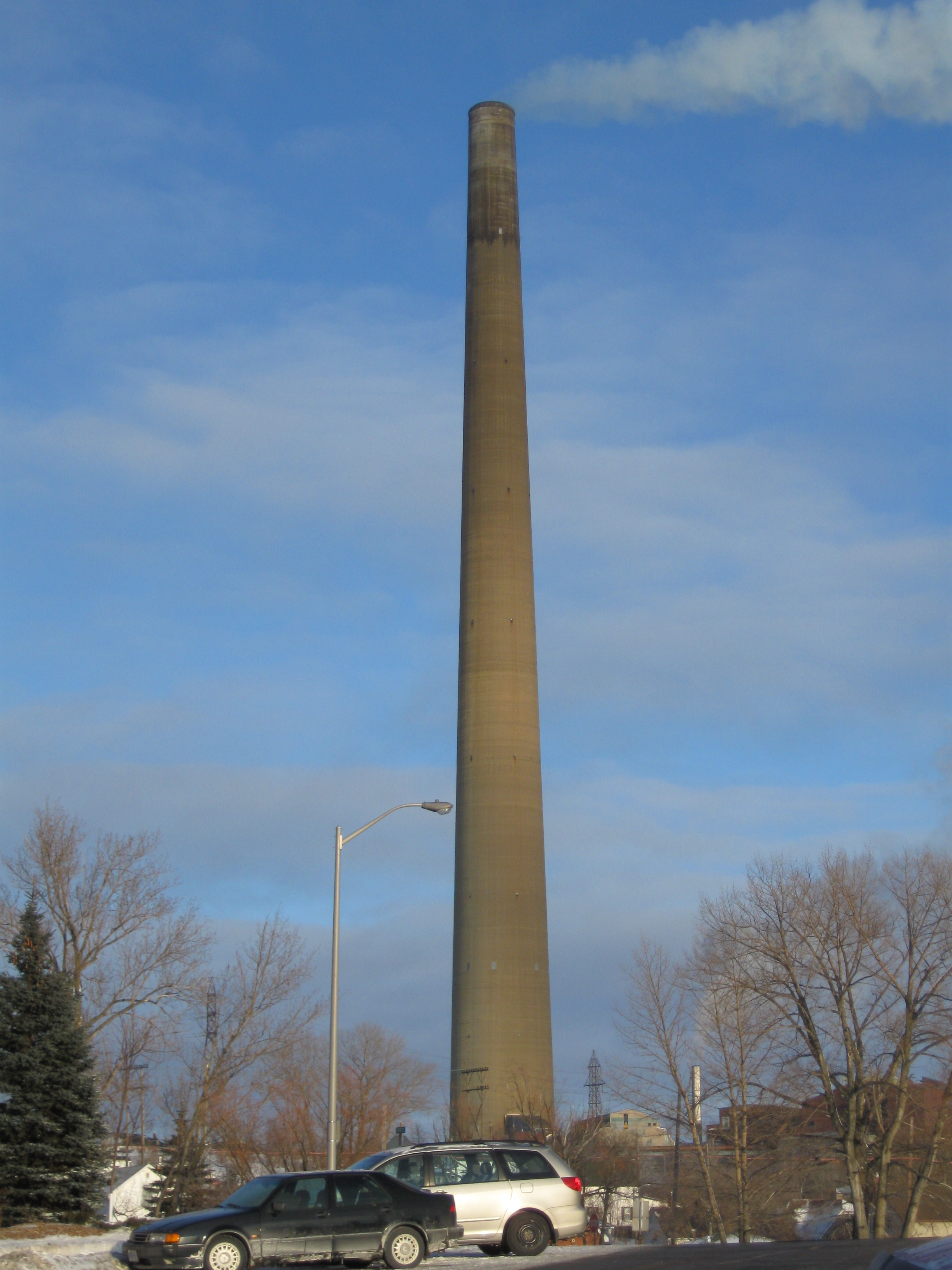 Inco Superstack, taken from Serpentine Street, Copper Cliff, ON.